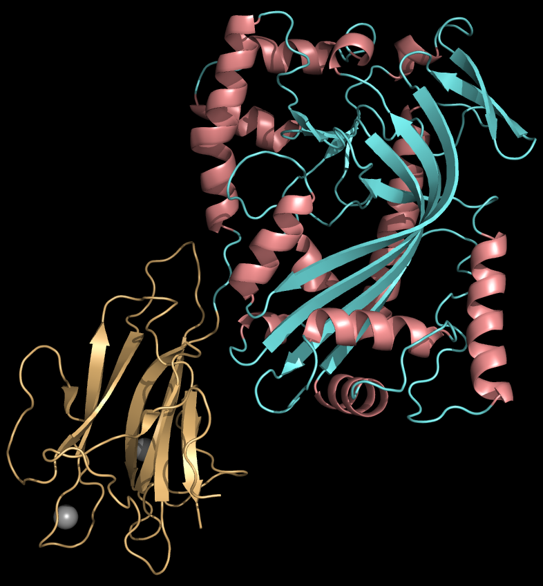 The structure of a MACPF domain containing protein Plu-MACPF: PDB 2QP2 [1] The MACPF domain is in cyan/pink. Another domain, the ? prism domain is in orange. Two calcium atoms are in grey.